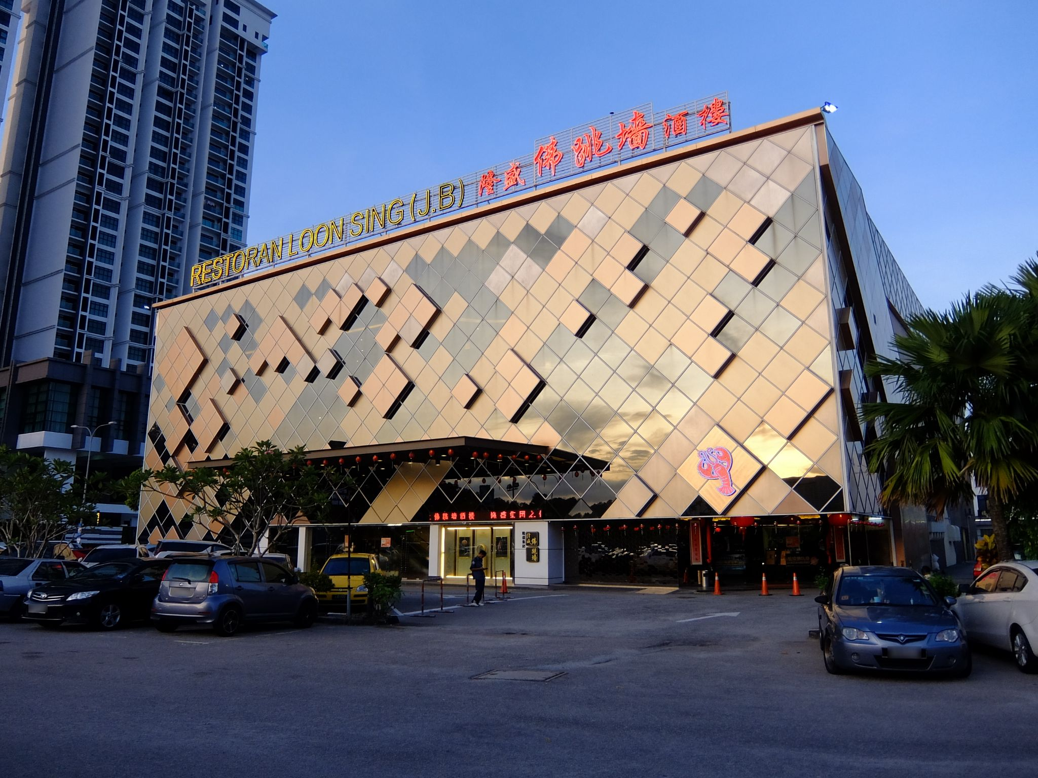 Loon Sing (JB) Restaurant, Bukit Indah, Iskandar Puteri, Johor Bahru, Johor, Malaysia